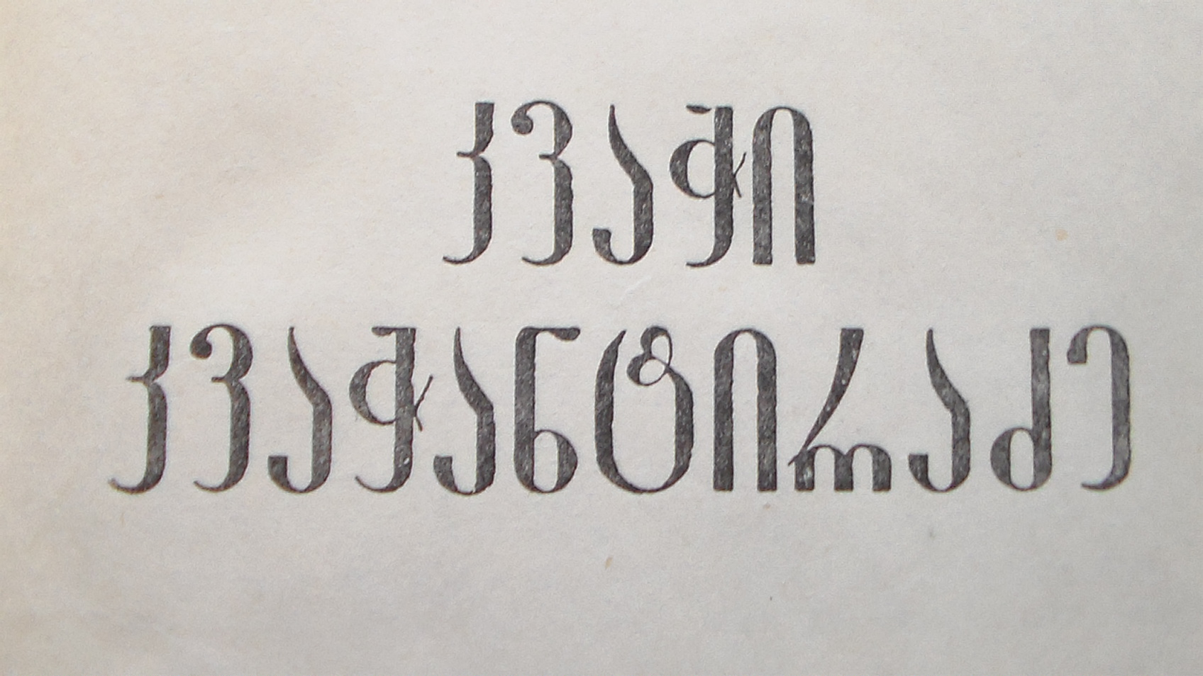 This is my work - Kvachi Kvachantiradze's cover